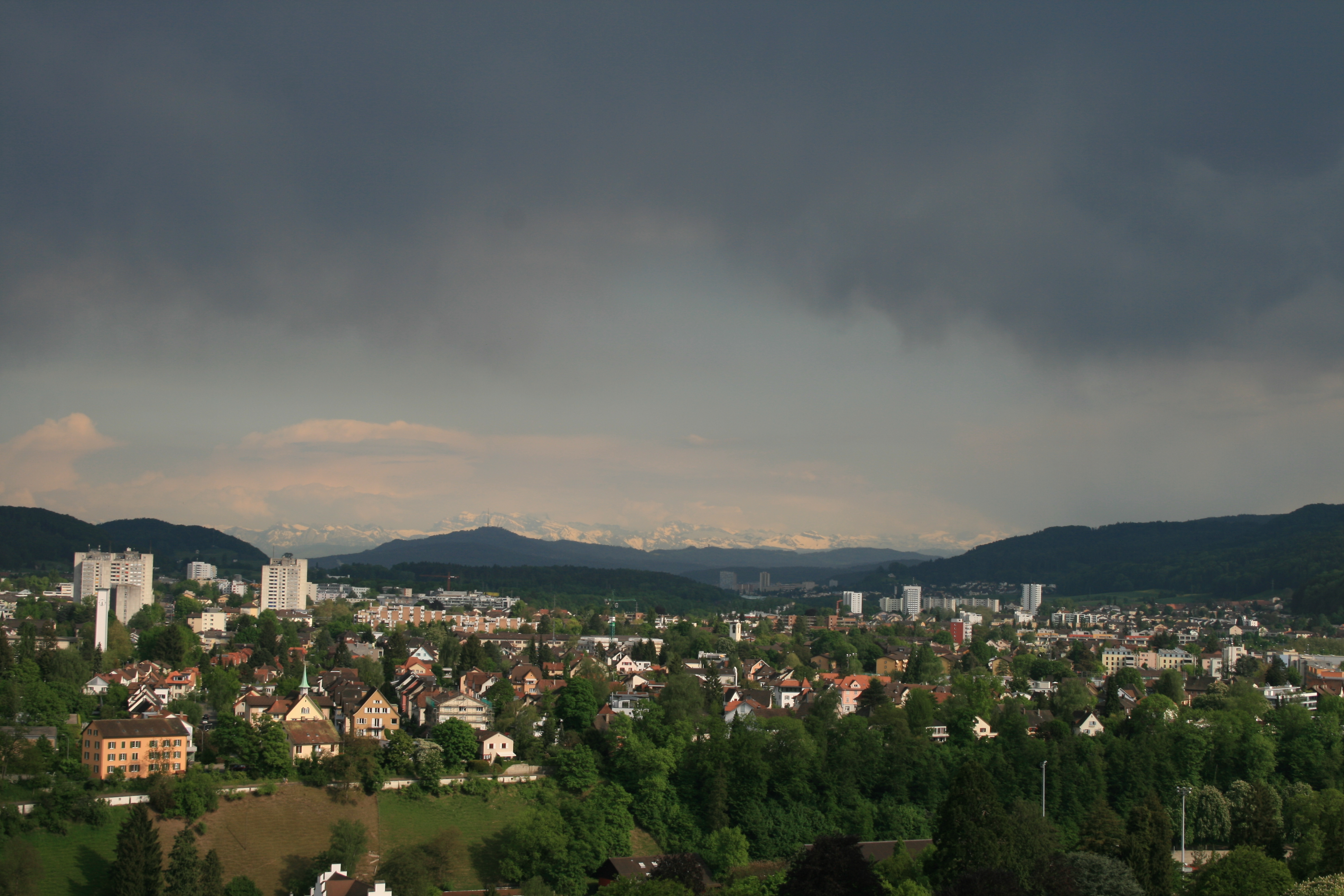 View from Ruine Stein to Wettingen, Switzerland